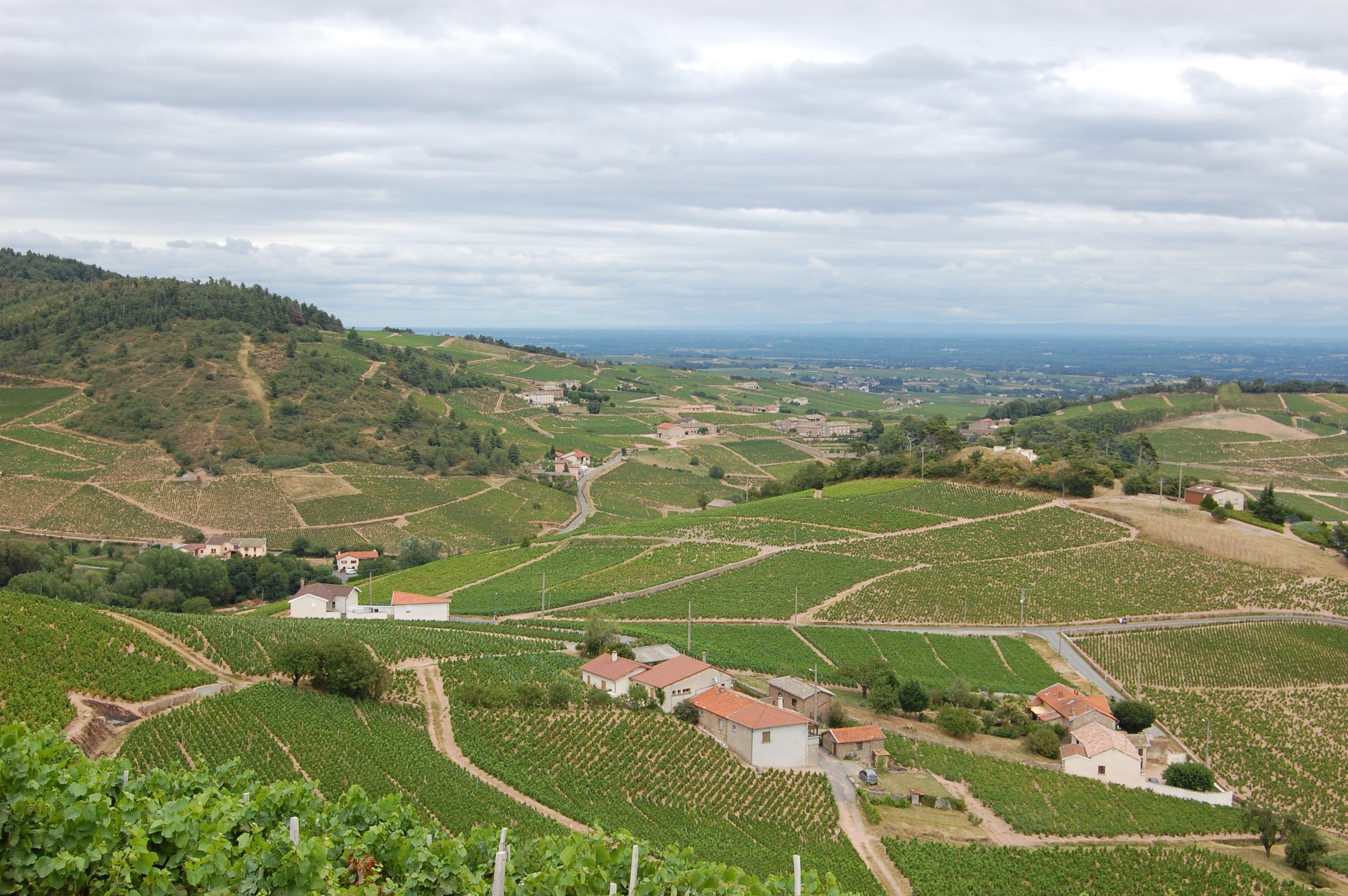 Vineyards in the Beaujolais wine region taken from one of the Cru Beaujolais sites of Chiroubles.